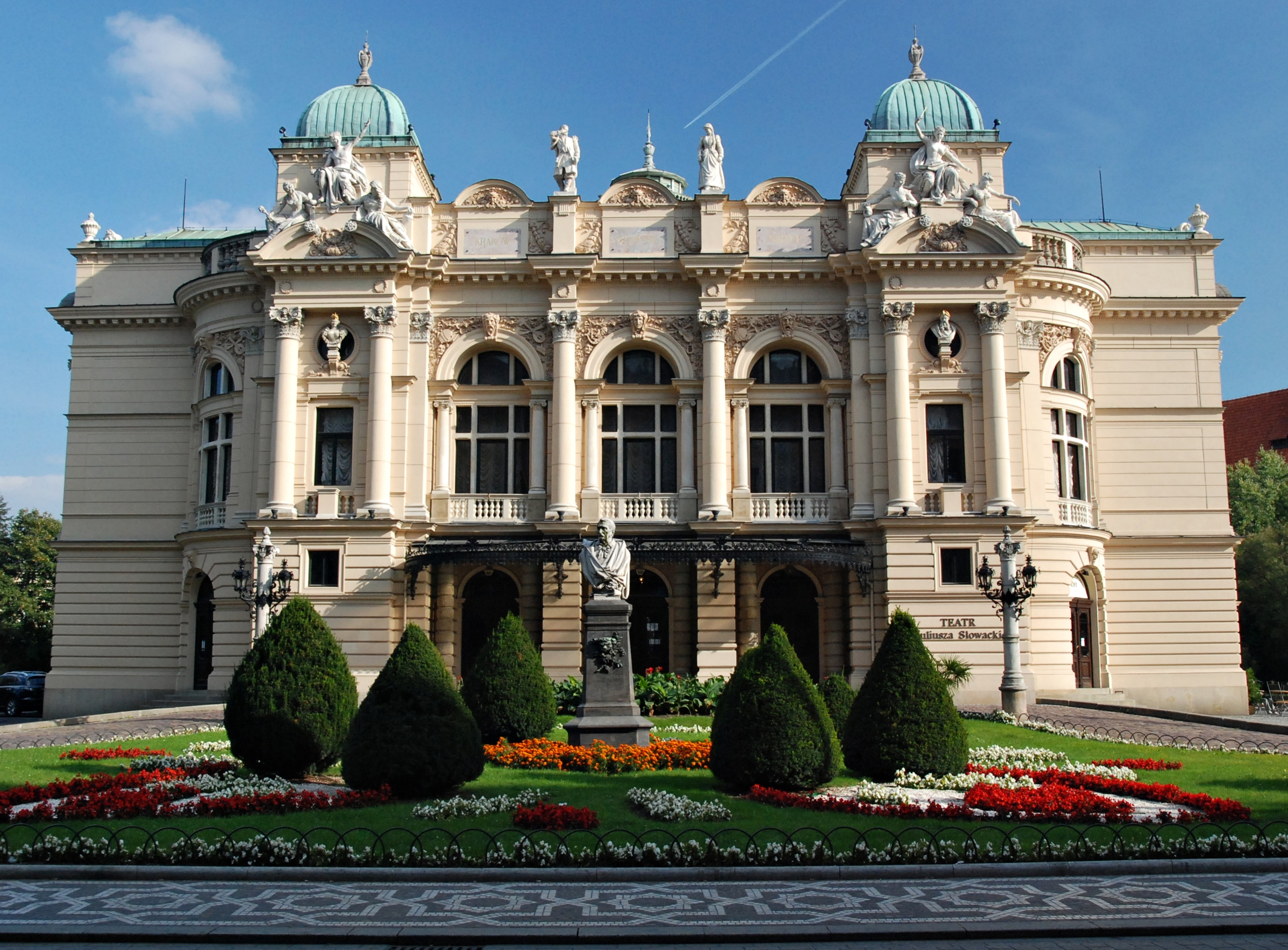 Juliusz Słowacki Theatre, Kraków, Poland